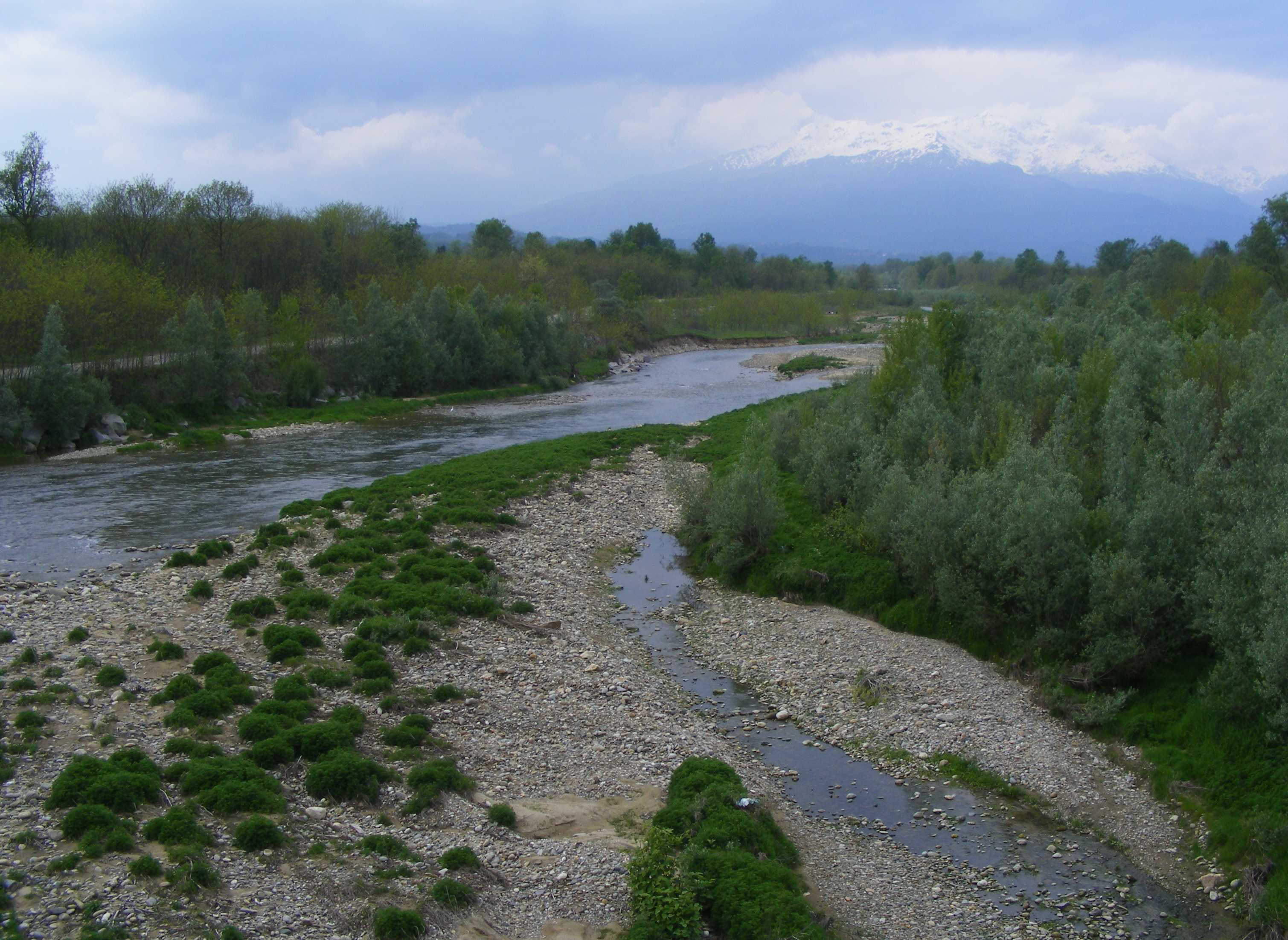 Elvo creek near Cerrione (BI, Italy)